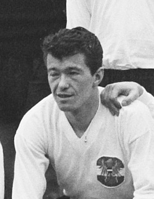 Rudolf Flögel in 1964.